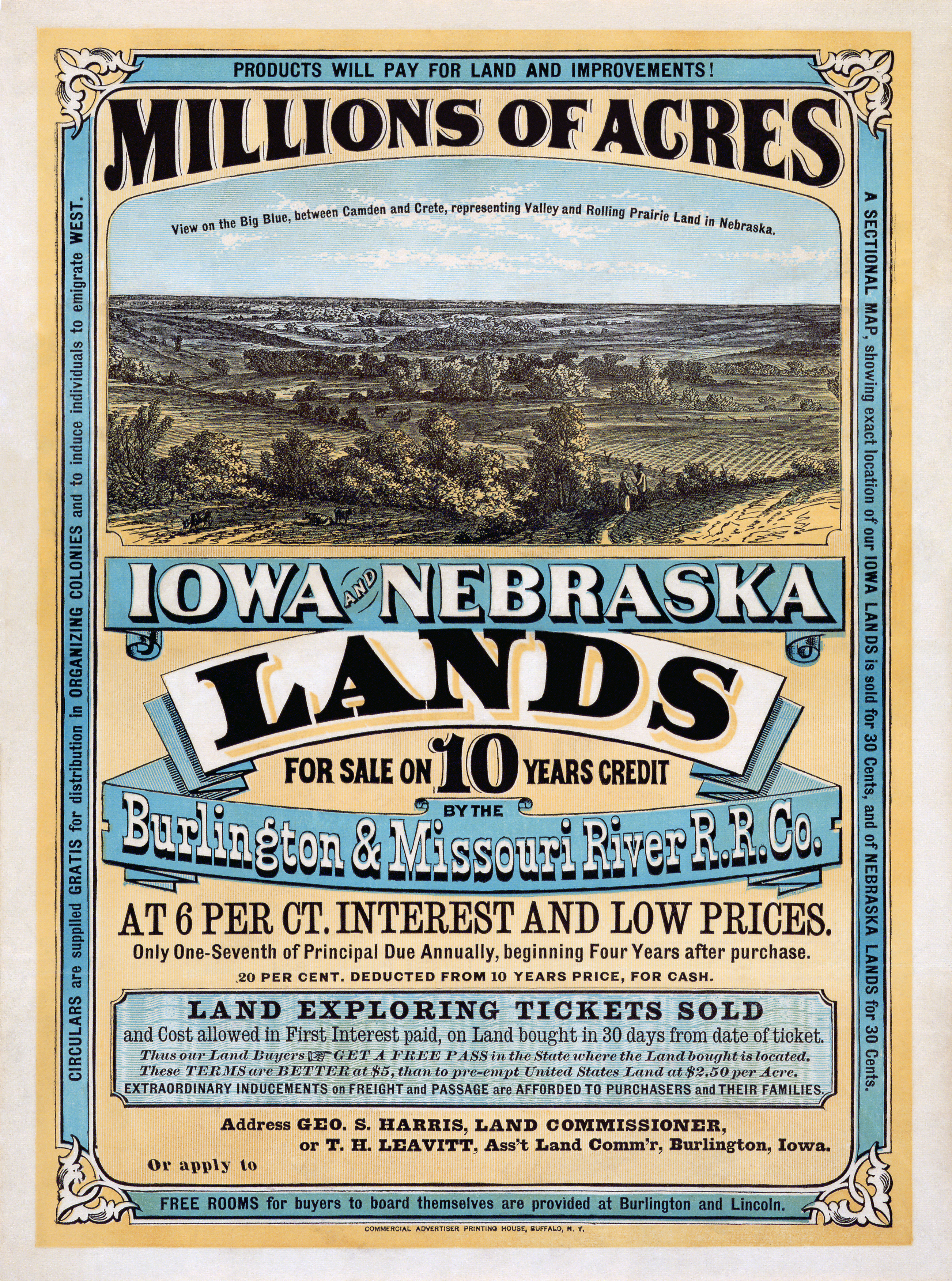 Millions of acres. Iowa and Nebraska. Land for sale on 10 years credit by the Burlington & Missouri River R. R. Co. at 6 per ct interest and low prices ... Buffalo. N. Y. Commercial advertiser printing house [1872].